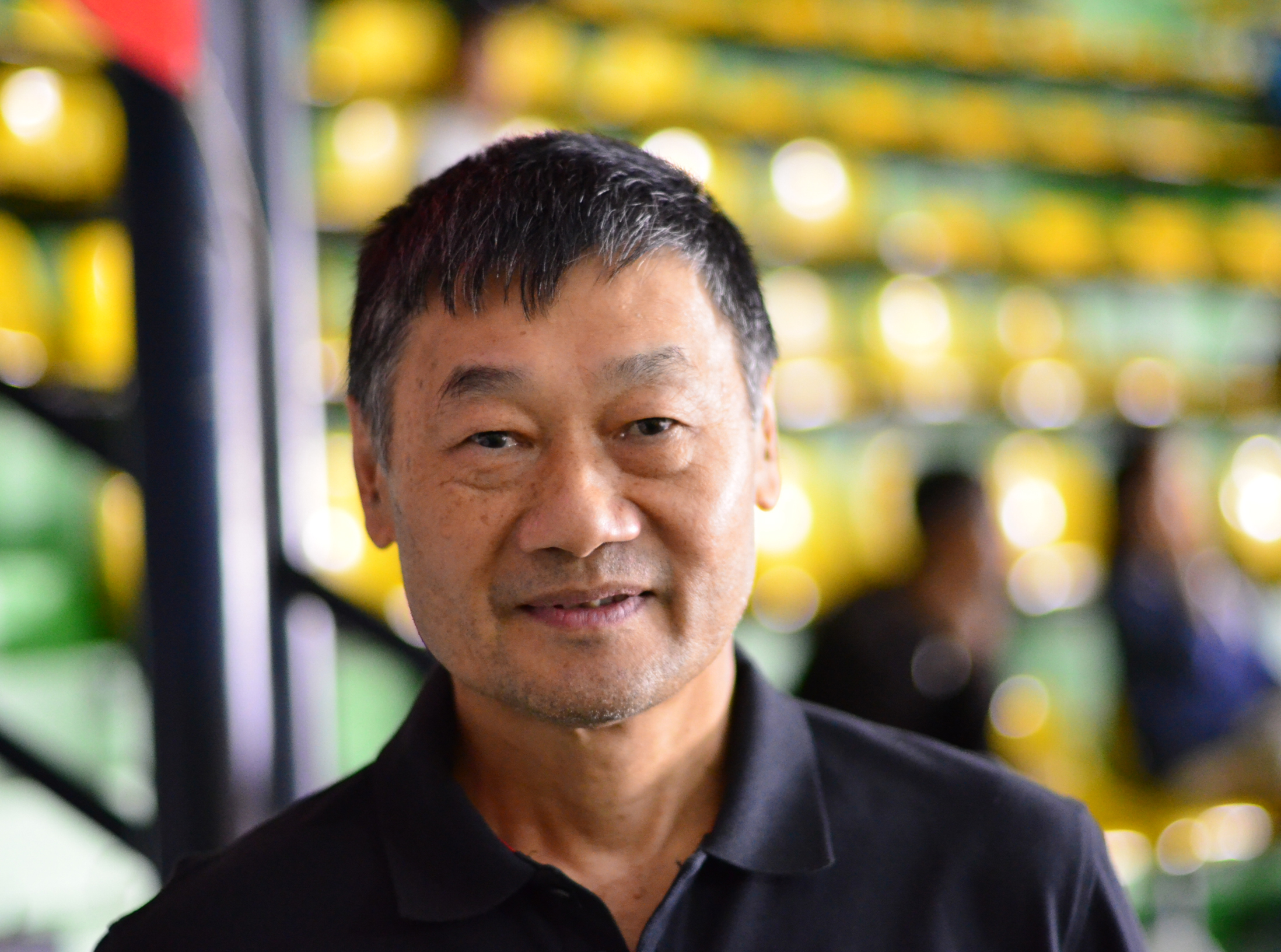 Udom Luangpetcharaporn